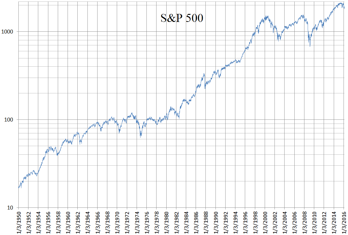 A logarithmic chart of the S&P 500 using daily closing values from January 3rd, 1950 to February 19th, 2016.